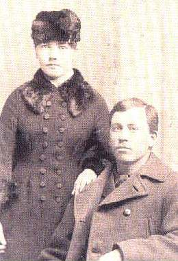 American author Laura Wilder (1867-1957) and her husband Almanzo.